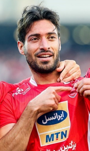 Shoja Khalilzadeh playing for Persepolis in December 2018 Gallery link